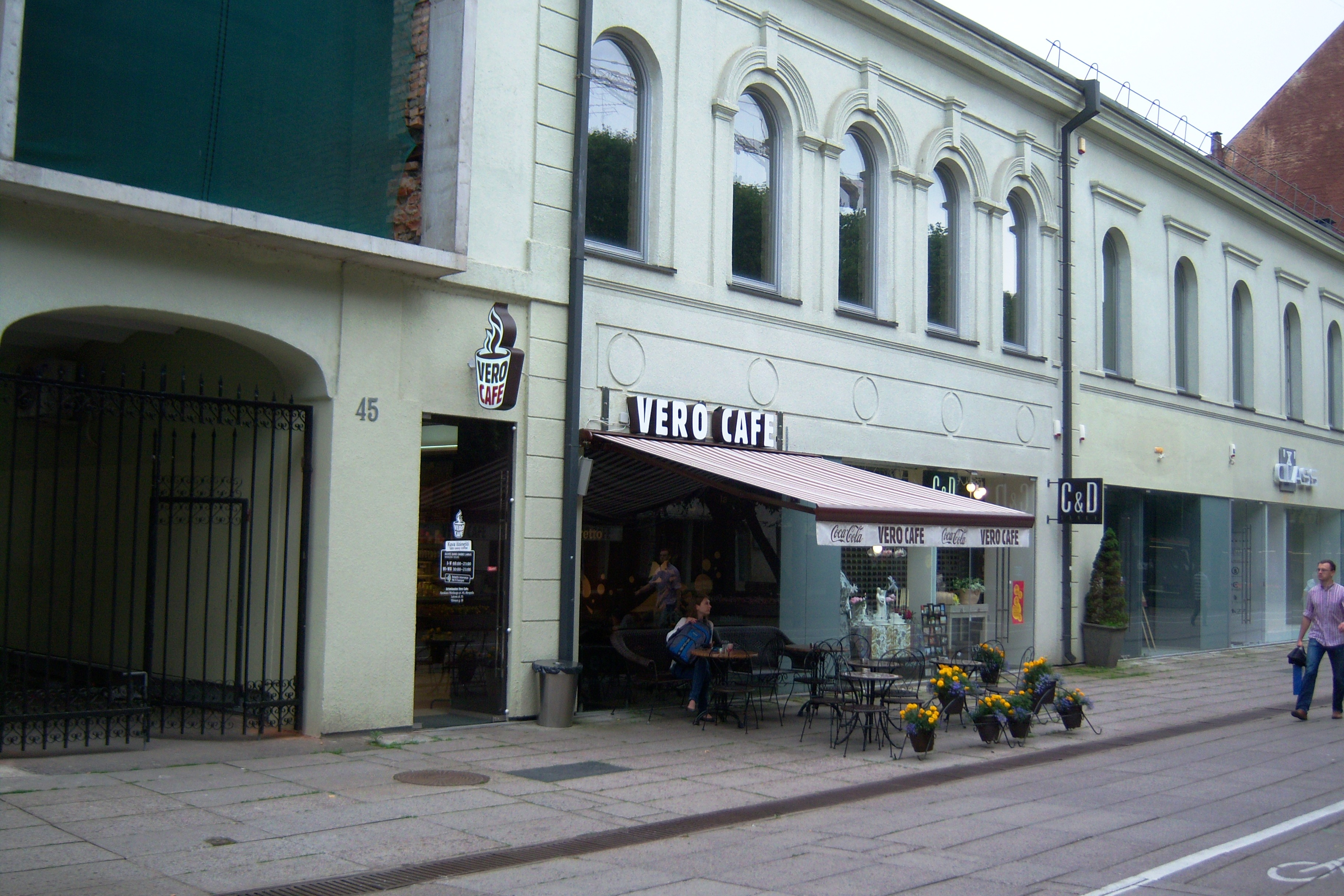 Laisvės alėja 45, Kaunas, Lithuania